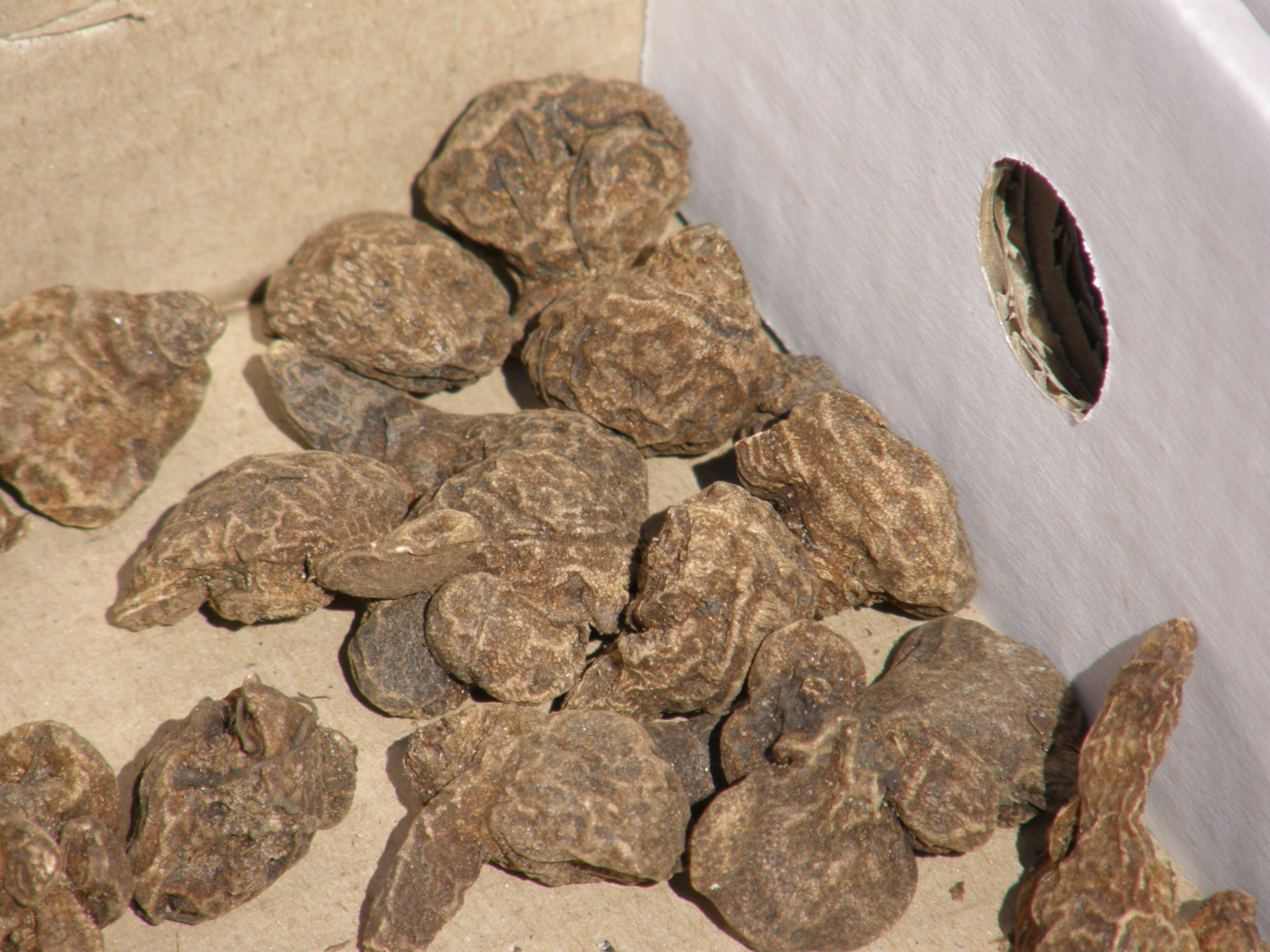 Seeds of Anemone coronaria at a flower show in Donetsk.